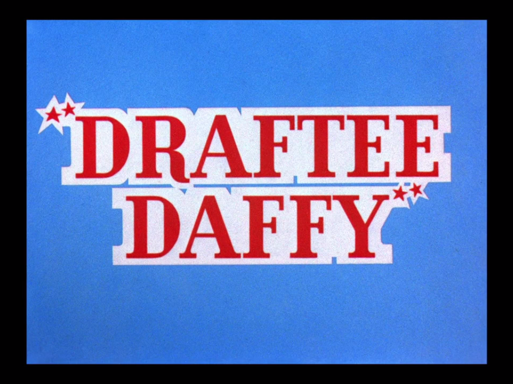 Title card from the short Draftee Daffy (1945)